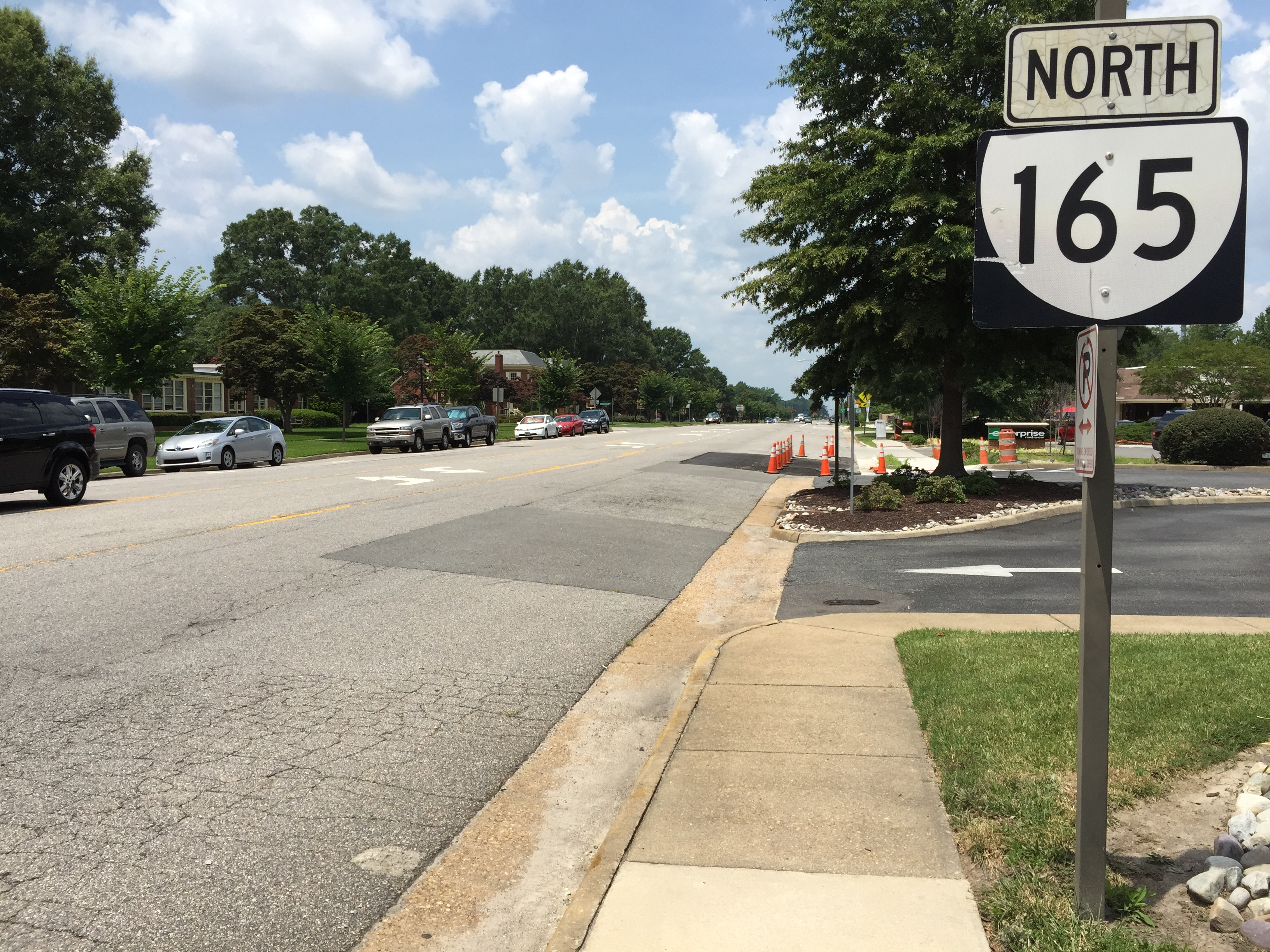 View north along Virginia State Route 165 (Princess Anne Road) just south of Admiral Degrasse Way in Virginia Beach, Virginia